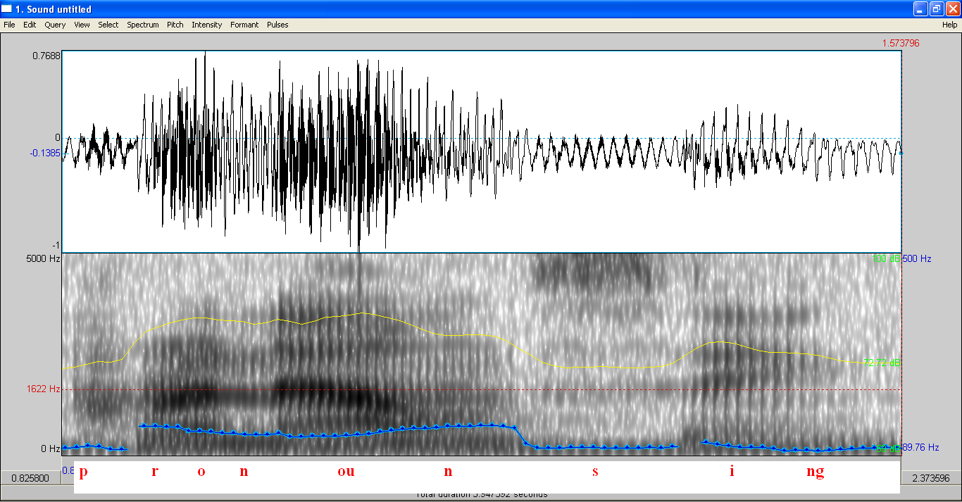 Waveform and spectrogram of "pronouncing", recorded in Praat